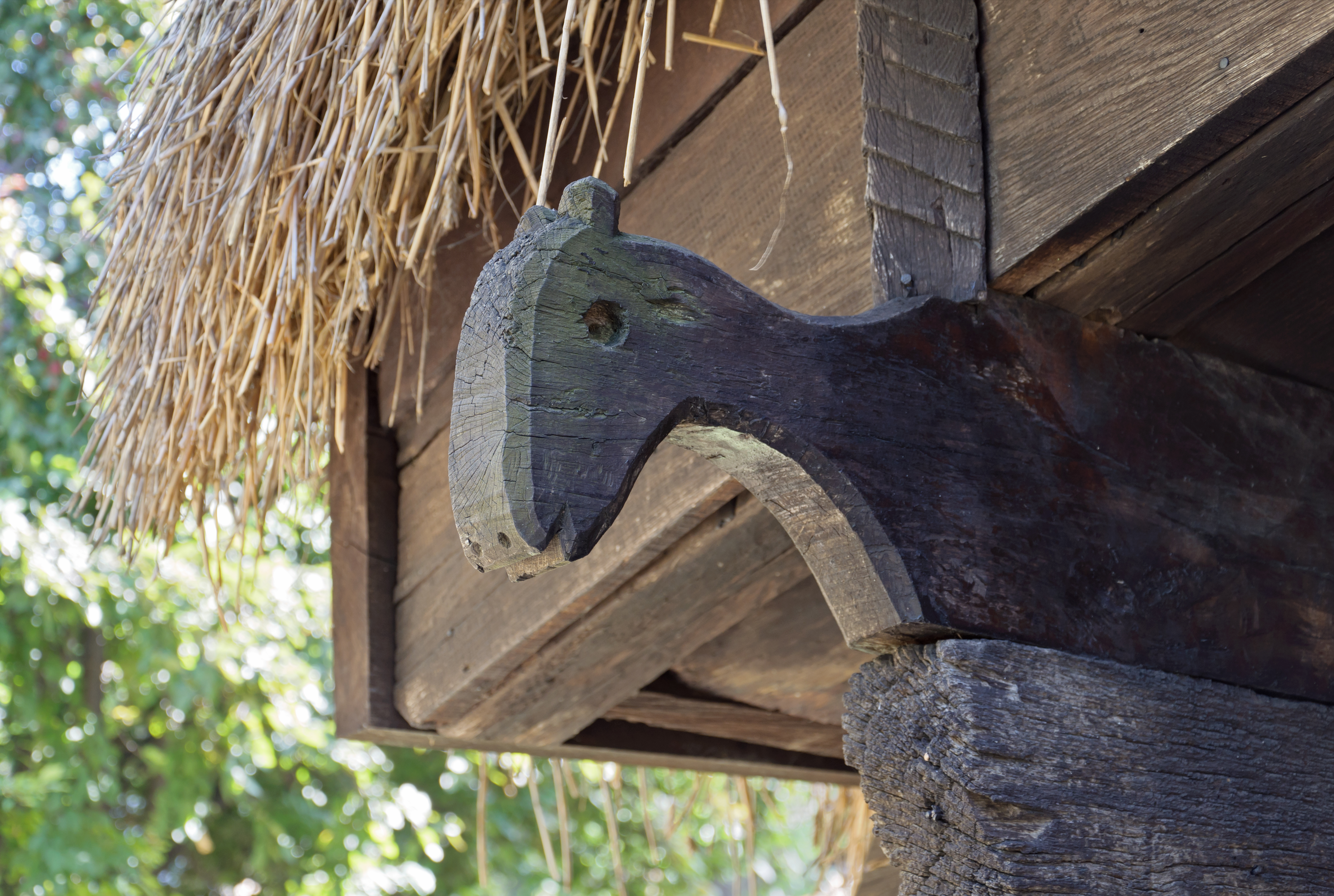 Beam (called 'cosorobi') with sculptured outer end in the shape of a horse head - 19th-century house from Castranova - Village Museum, Bucharest, Romania.